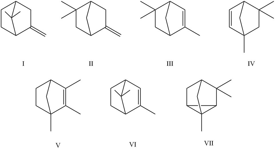 Fenchenes